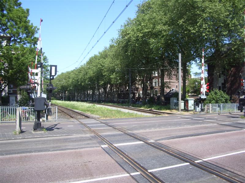 Location of the former Biltstraat railwaystation in Utrecht, Netherlands